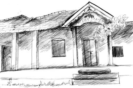 Artistic Imagination of Pangode Police Outpost in 1938